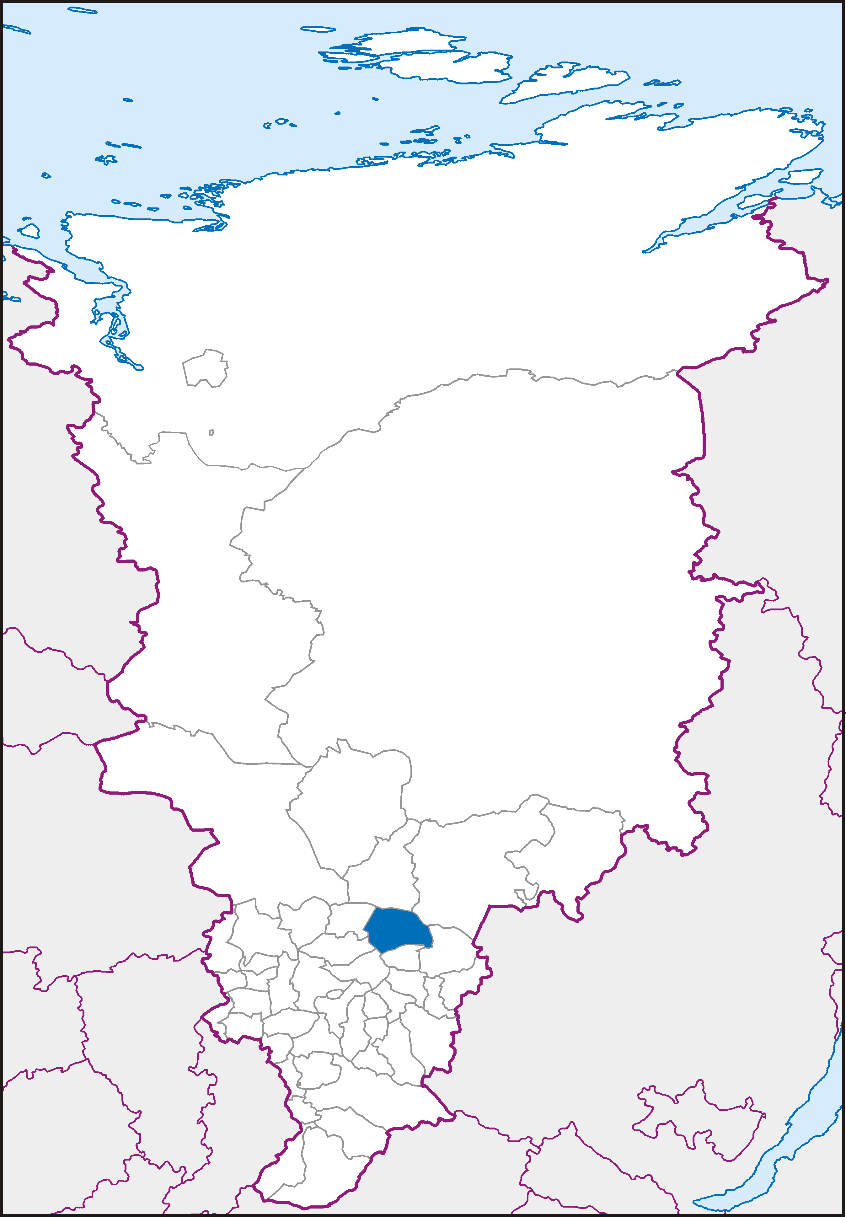 Map of Krasnoyarsk Krai in Albers Equal-Area Conic projection (Central Meridian = 95° E)